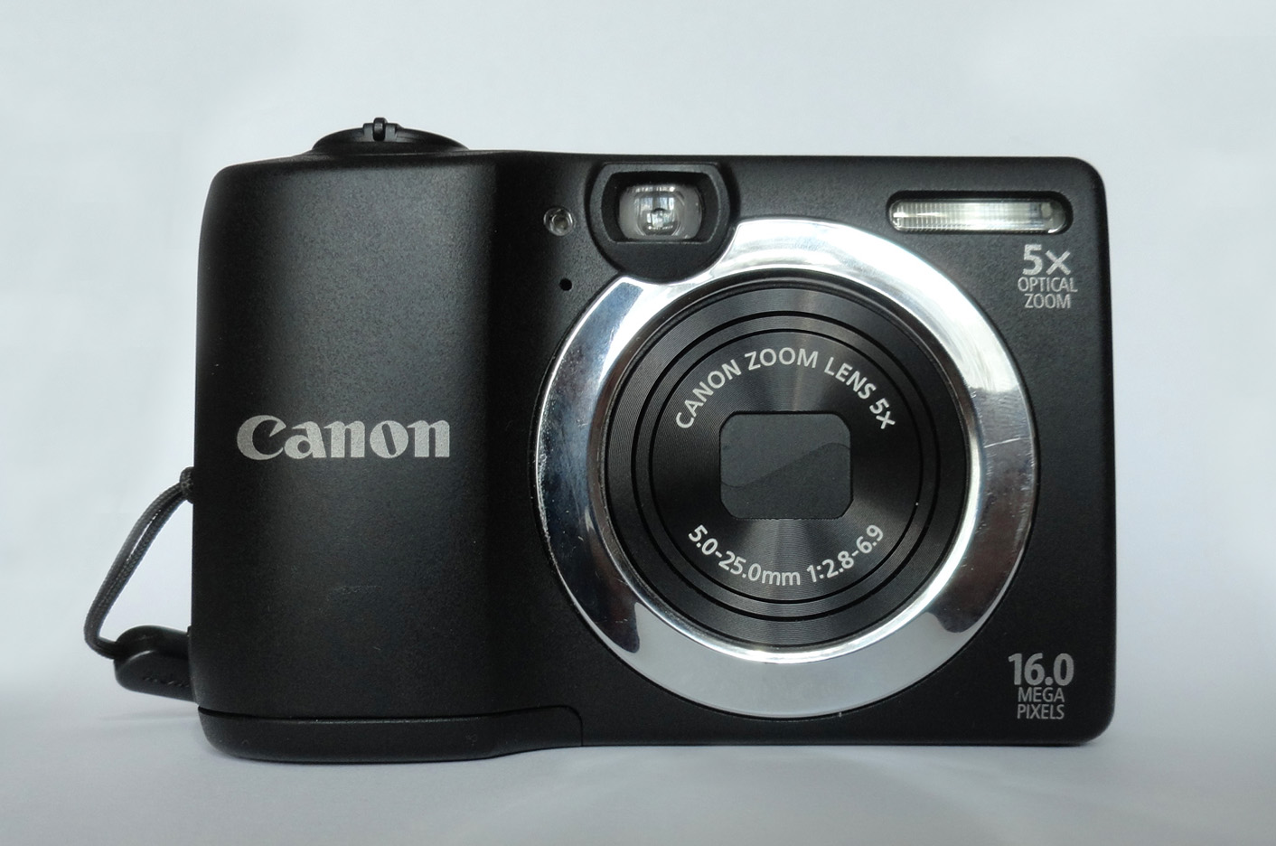 Canon PowerShot A1400 camera front view